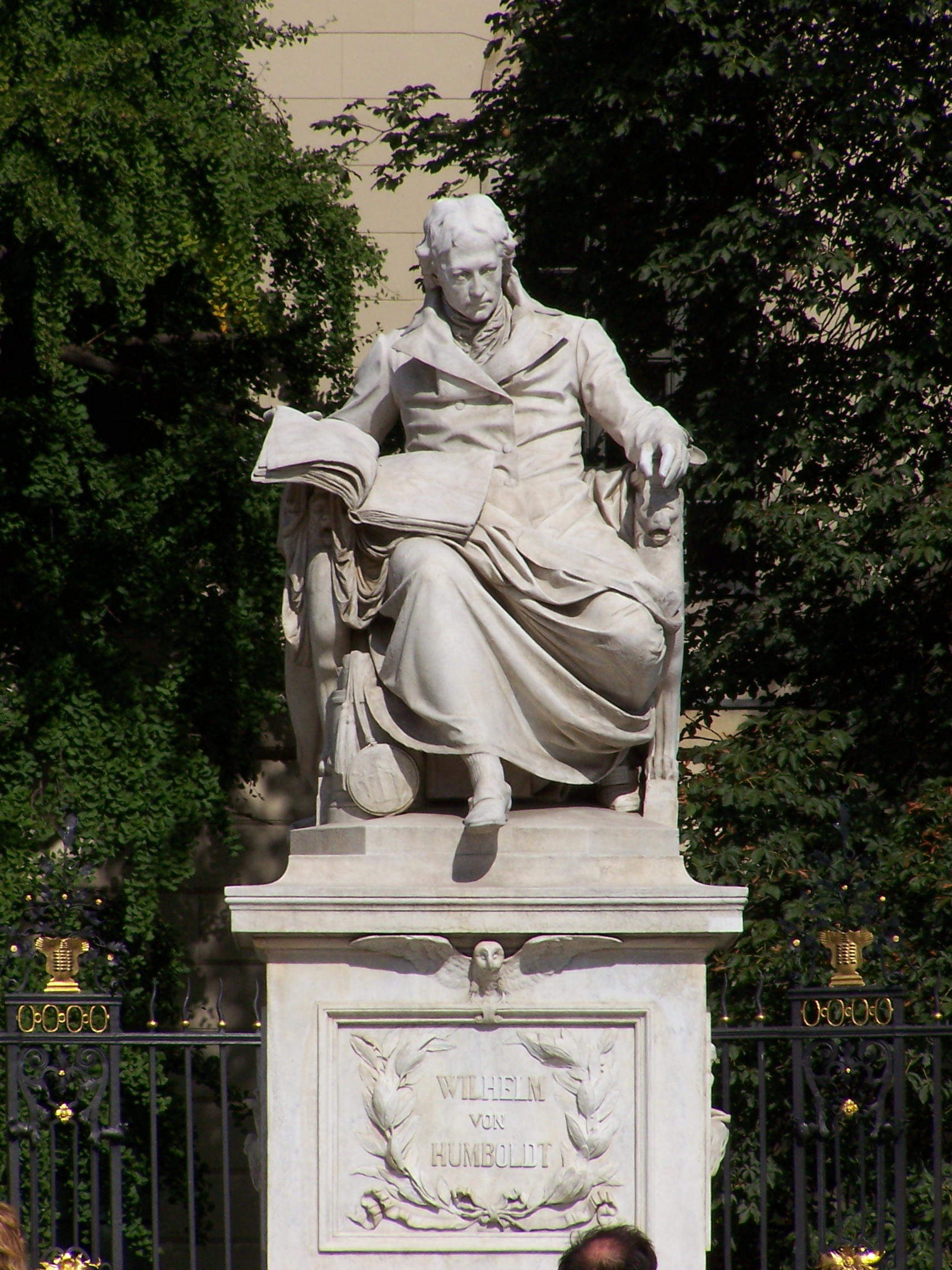 Wilhelm von Humboldt statue in front of the Humboldt-University in Berlin (Germany).